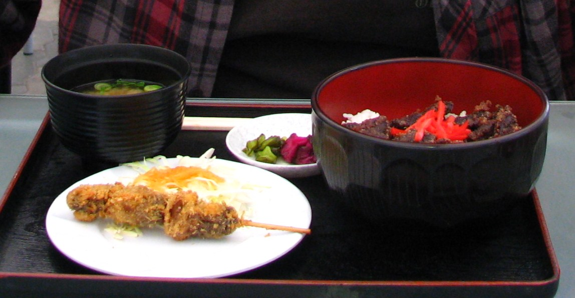 Meal with the meat of short-fin pilot whale. On the left is a skewer with bits of fried whale meat, on the right is a bowl of rice topped with grilled whale meat. Taken in Wakayama prefecture, Japan.